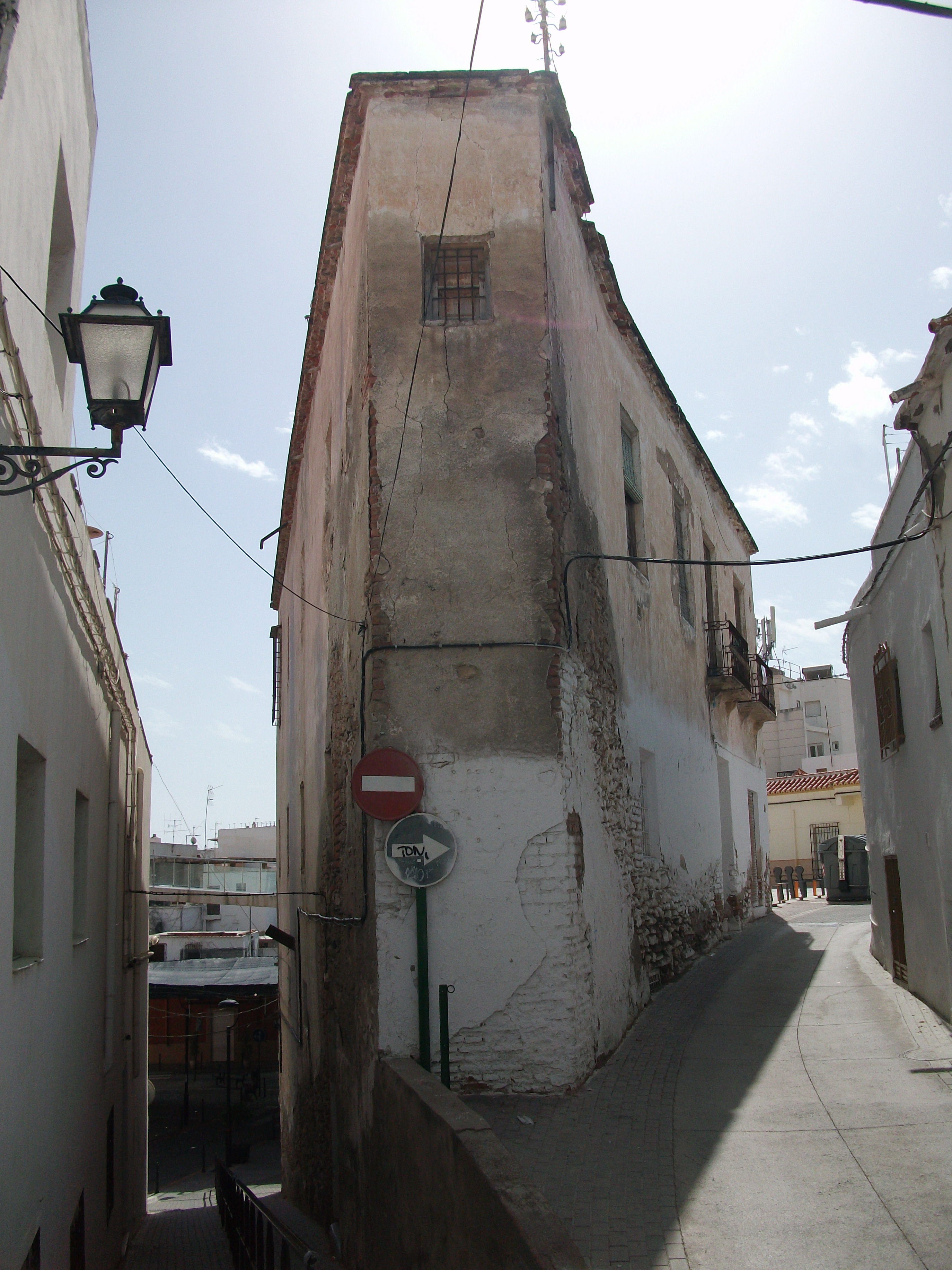 Calle de Adra